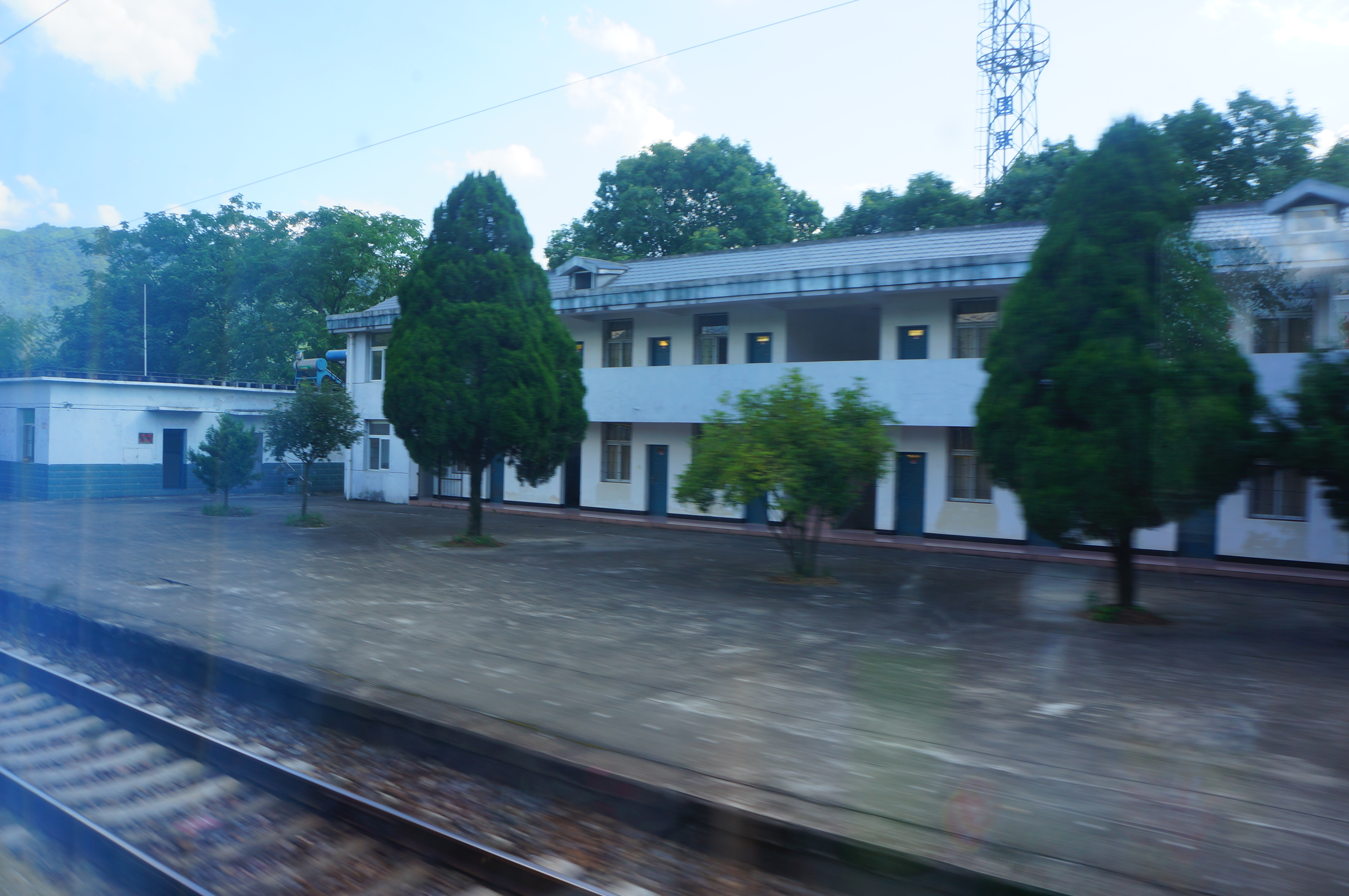 201806 Station Building of Wujiangtang Station